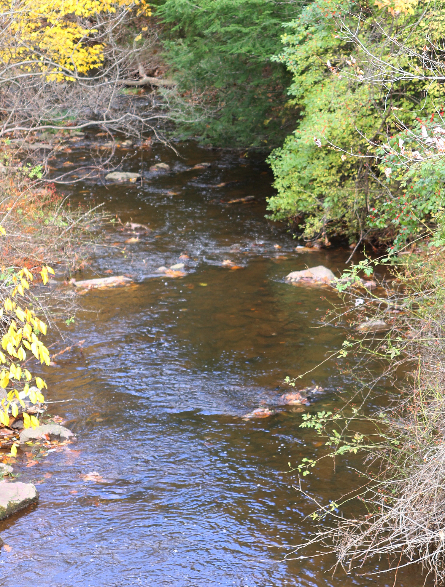 Davis Run looking downstream near the Pumping Station Dam, a few hundred feet from its mouth.